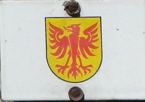 Coat of Arms of the dukes of Zähringen.